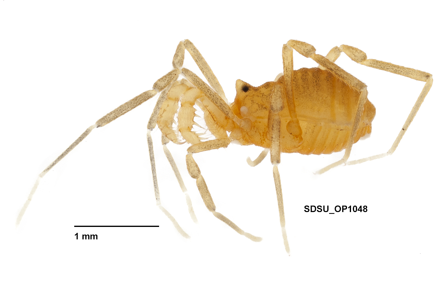 Zuma tioga Briggs, 1971; PRESERVED_SPECIMEN; ; ; 23/11/2006 00:00; Identified by: M. Hedin